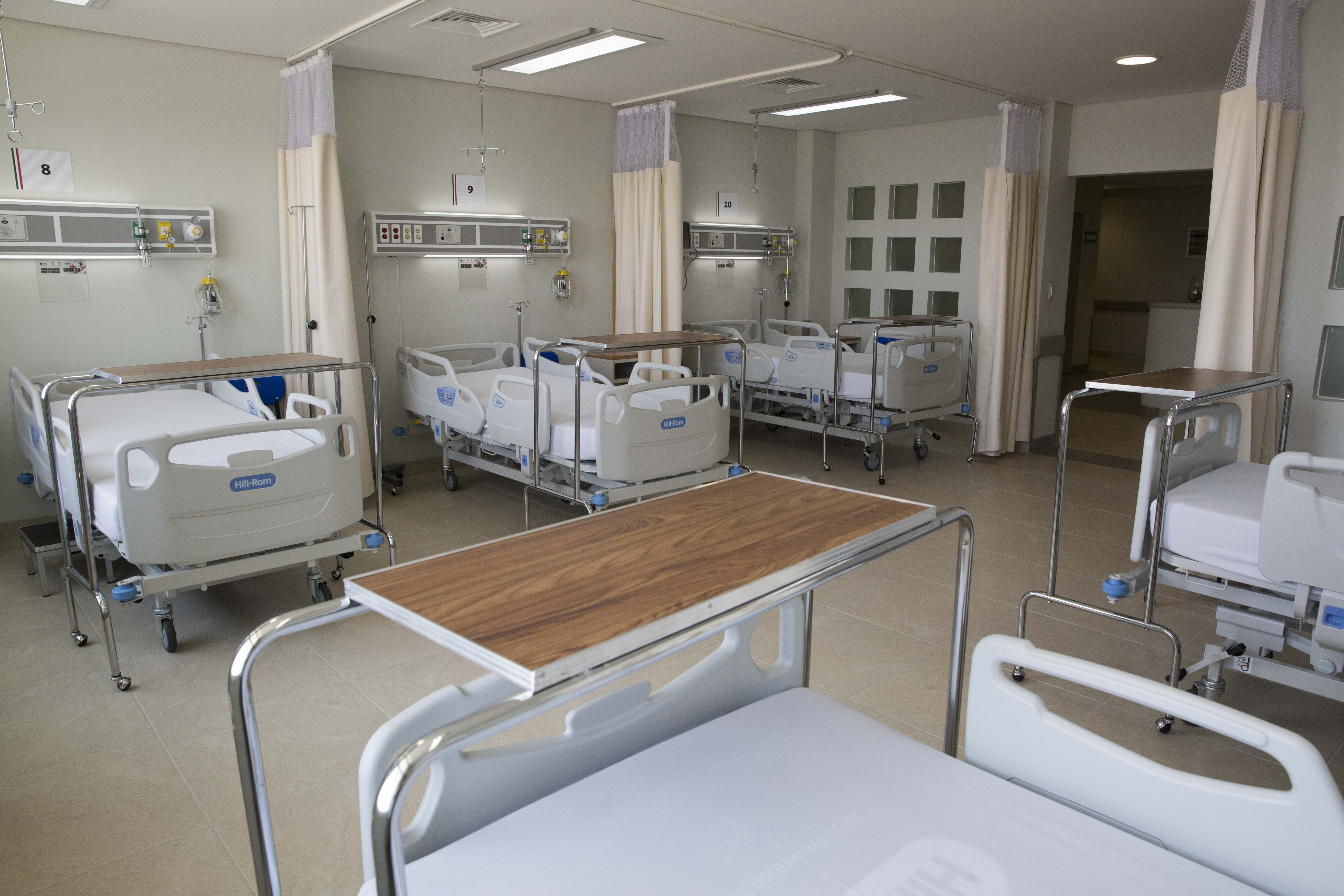 Inauguración del Hospital Regional de Apatzingán. Apatzingán, Michoacán. 18 de agosto de 2015.